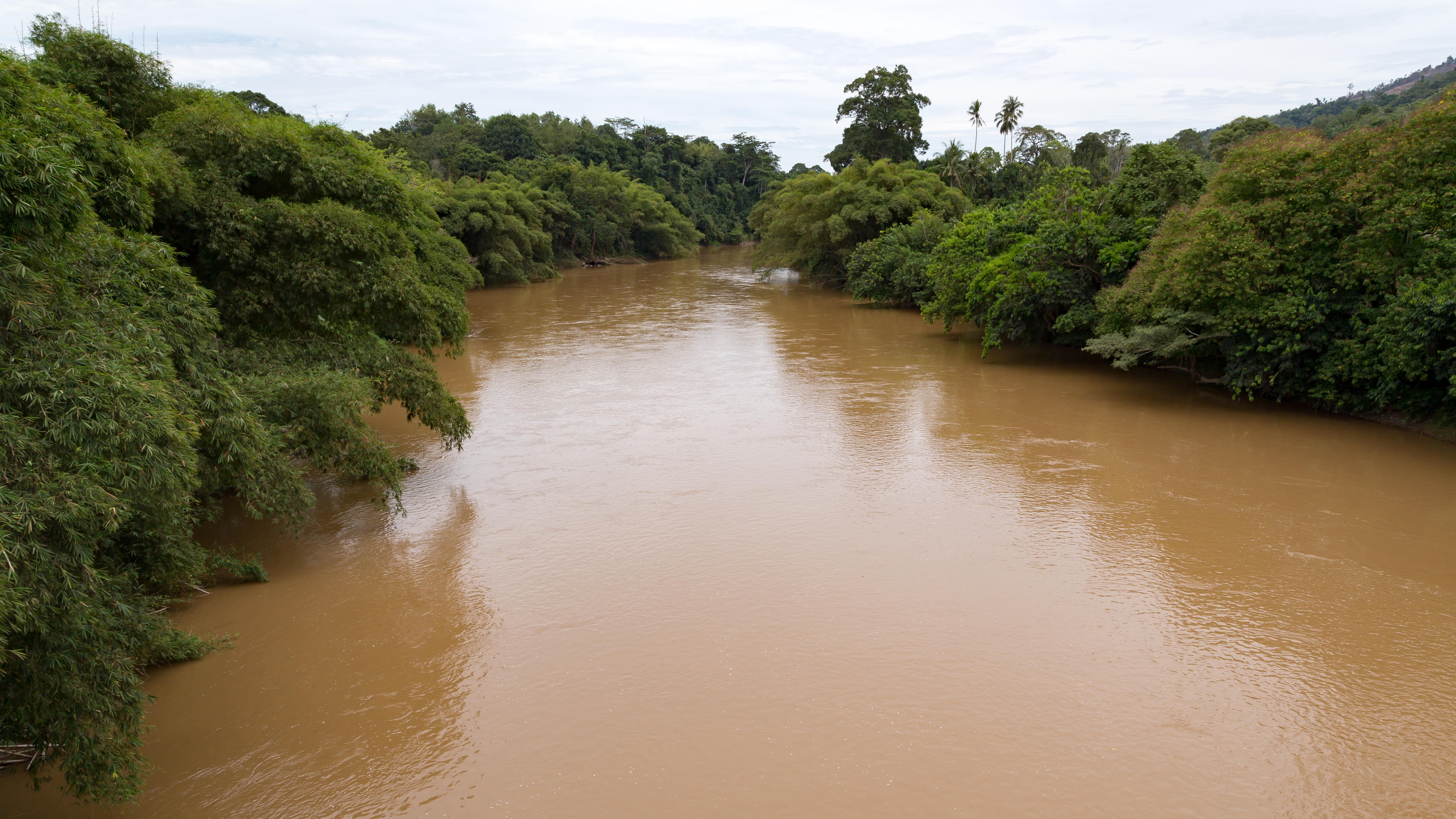 Kemabong, Sabah, Malaysia: The bridge over Sungai Padas connects Kemabong Lama with the newer part of the village